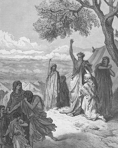 Noah curses Ham